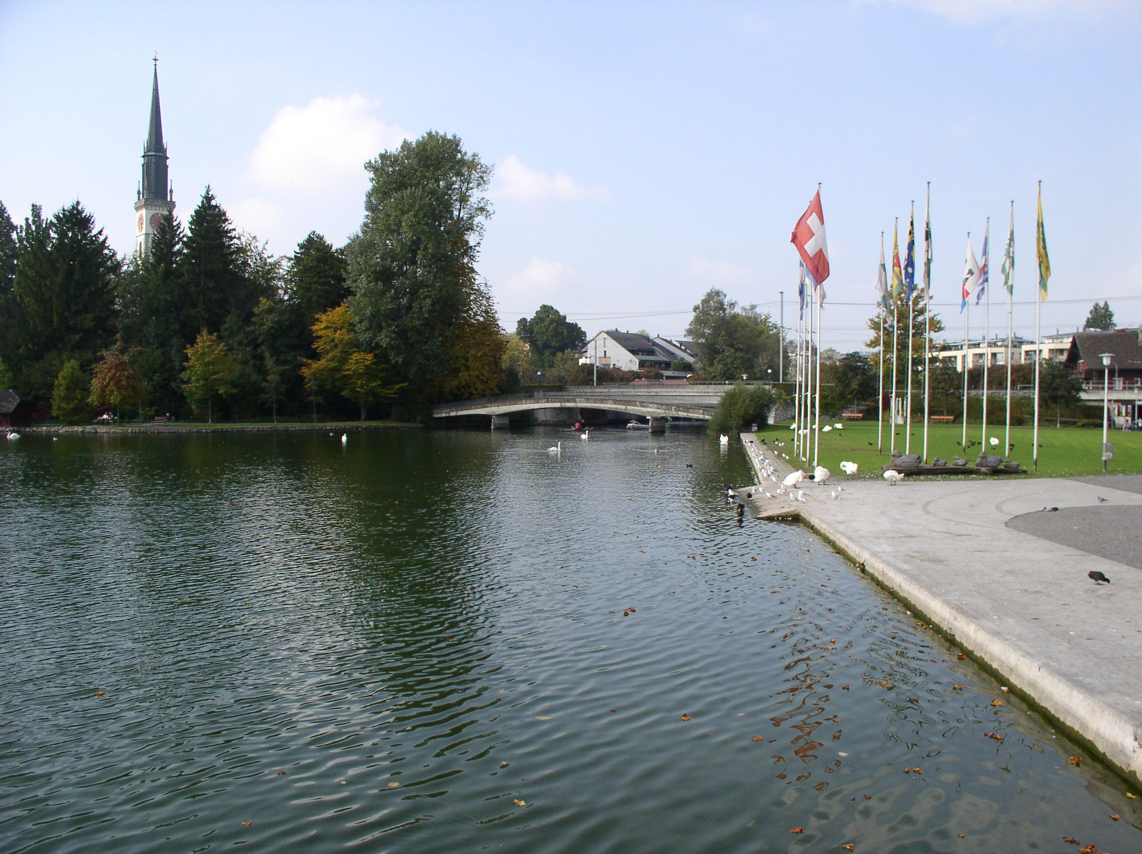 Description: Abfluss der Lorze aus dem Zugersee in Cham Source: photo taken by me, October 2005 Photographer: Baikonur